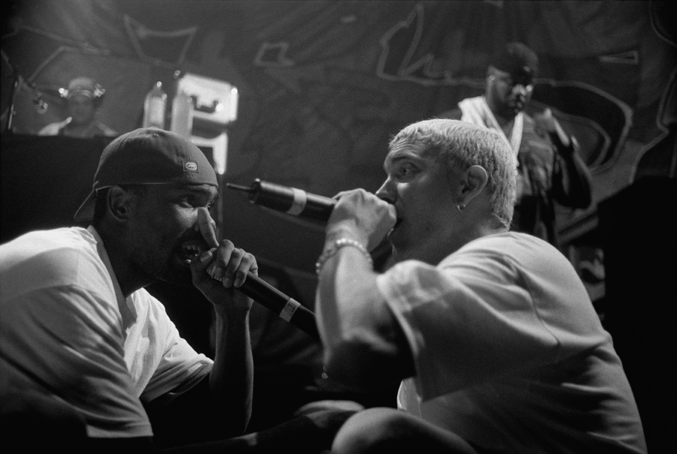 Munich/Germany Stadthalle 1998